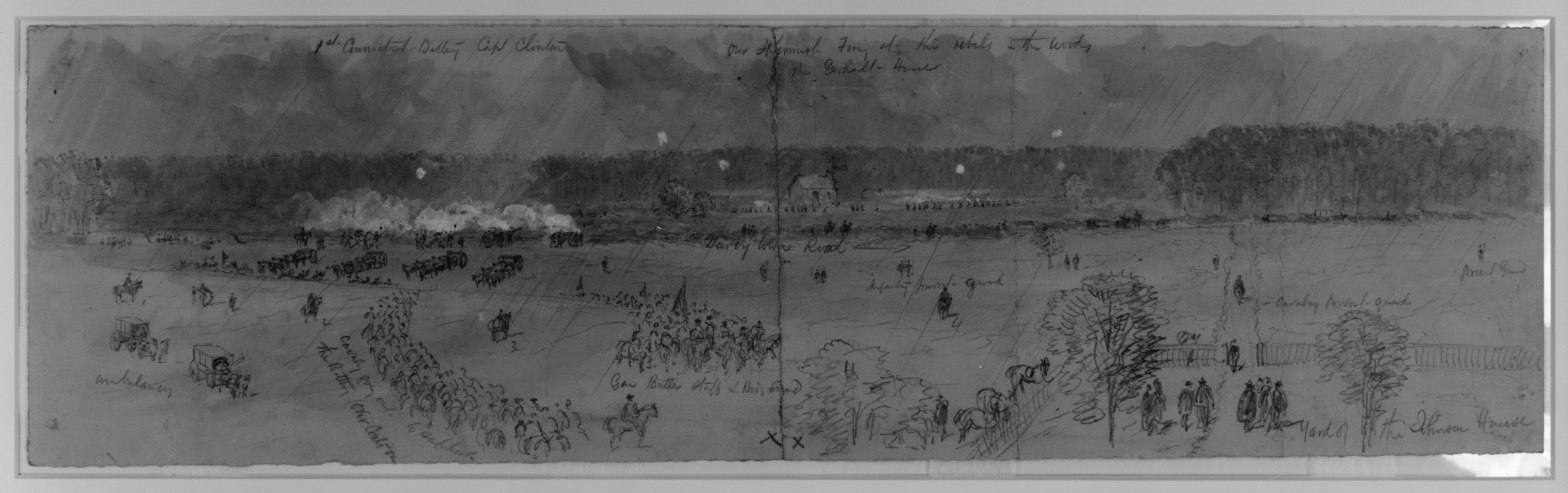 Inscribed above image: 1st Connecticut Battery Capt. Clinton. Our skirmish firing at the rebels in the woods. The Gerhadt House. Inscribed on verso: View of the action on Thursday 27th from the Johnson House looking across the Darby town road on the 10th corps front. Gen. Butler Staff & Body Guard riding to the House. raining hard. More sketches tomorrow. Inscribed below image as indicators: ambulances; cavalry going out to support the Battery (overcoats on); Gen Butler staff & Body Guard; Darby Town Road; Infantry provost guard; cavalry provost guard; provost guard; Yard of the Johnson House.